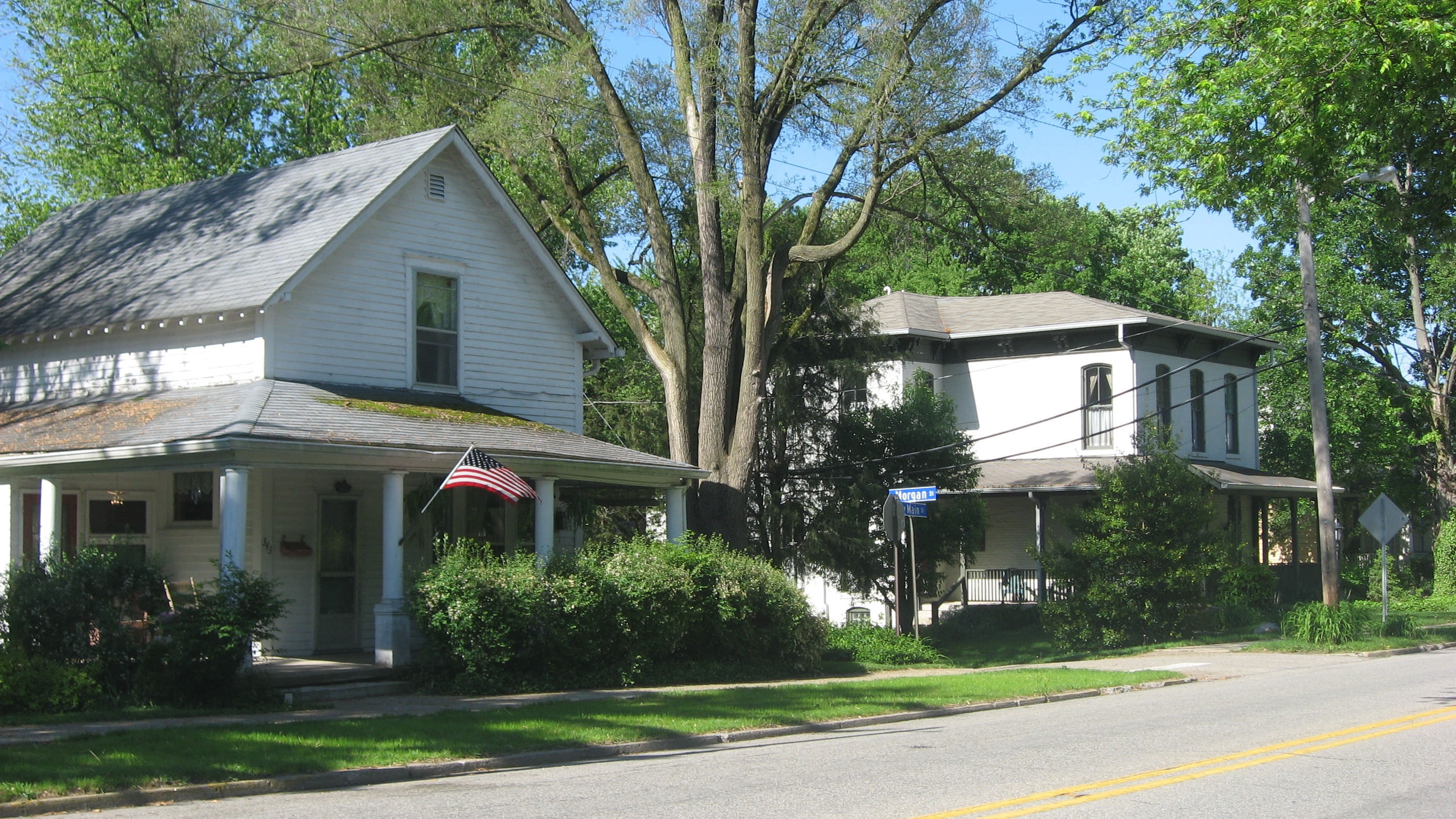 Houses on the southern side of the 300 block of W. Main Street (U.S. Route 36) in Danville, Indiana, United States. This block is part of the Danville Main Street Historic District, a historic district that is listed on the National Register of Historic Places.